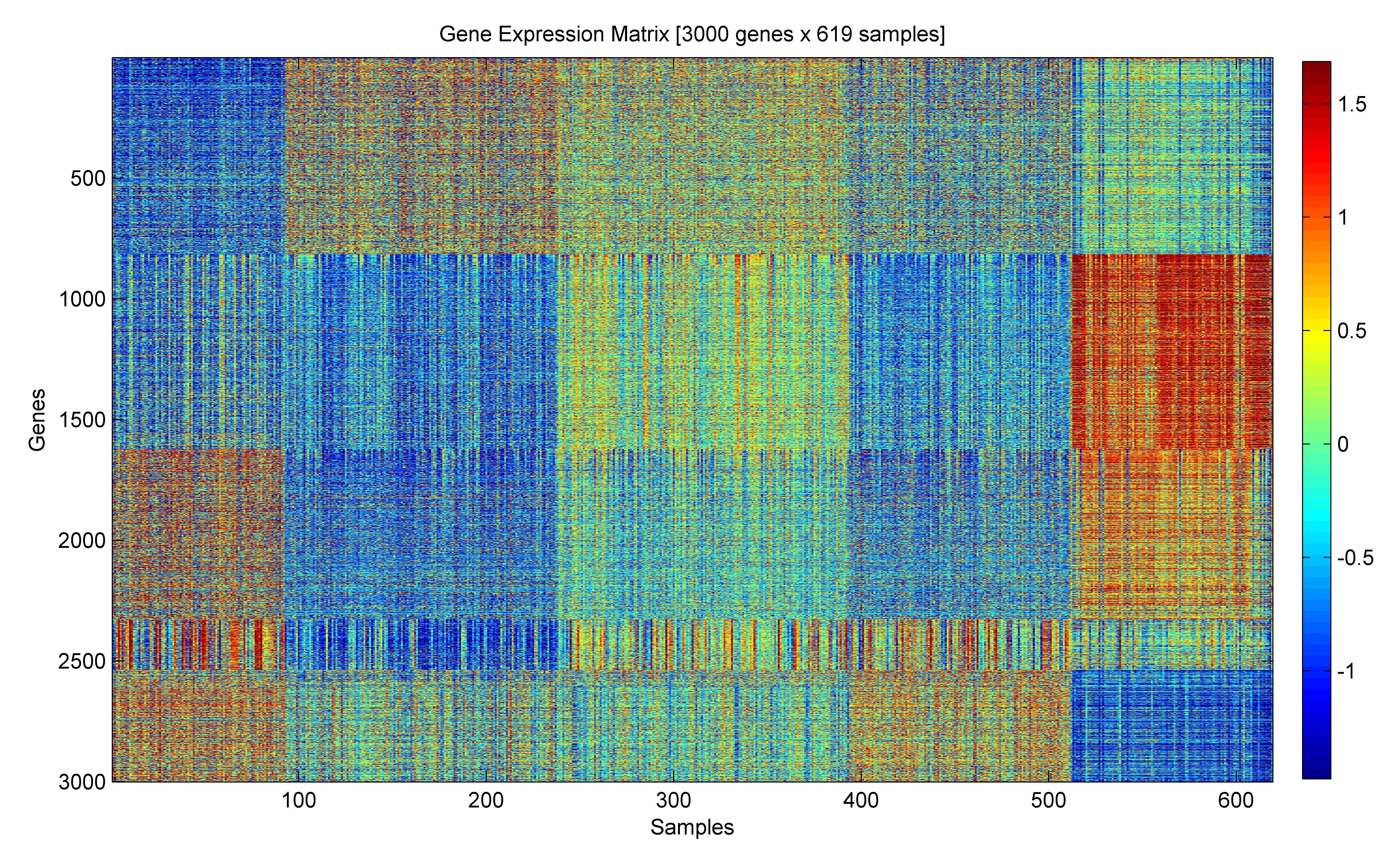 Bioinformatics tutorial - Gene expression matrix